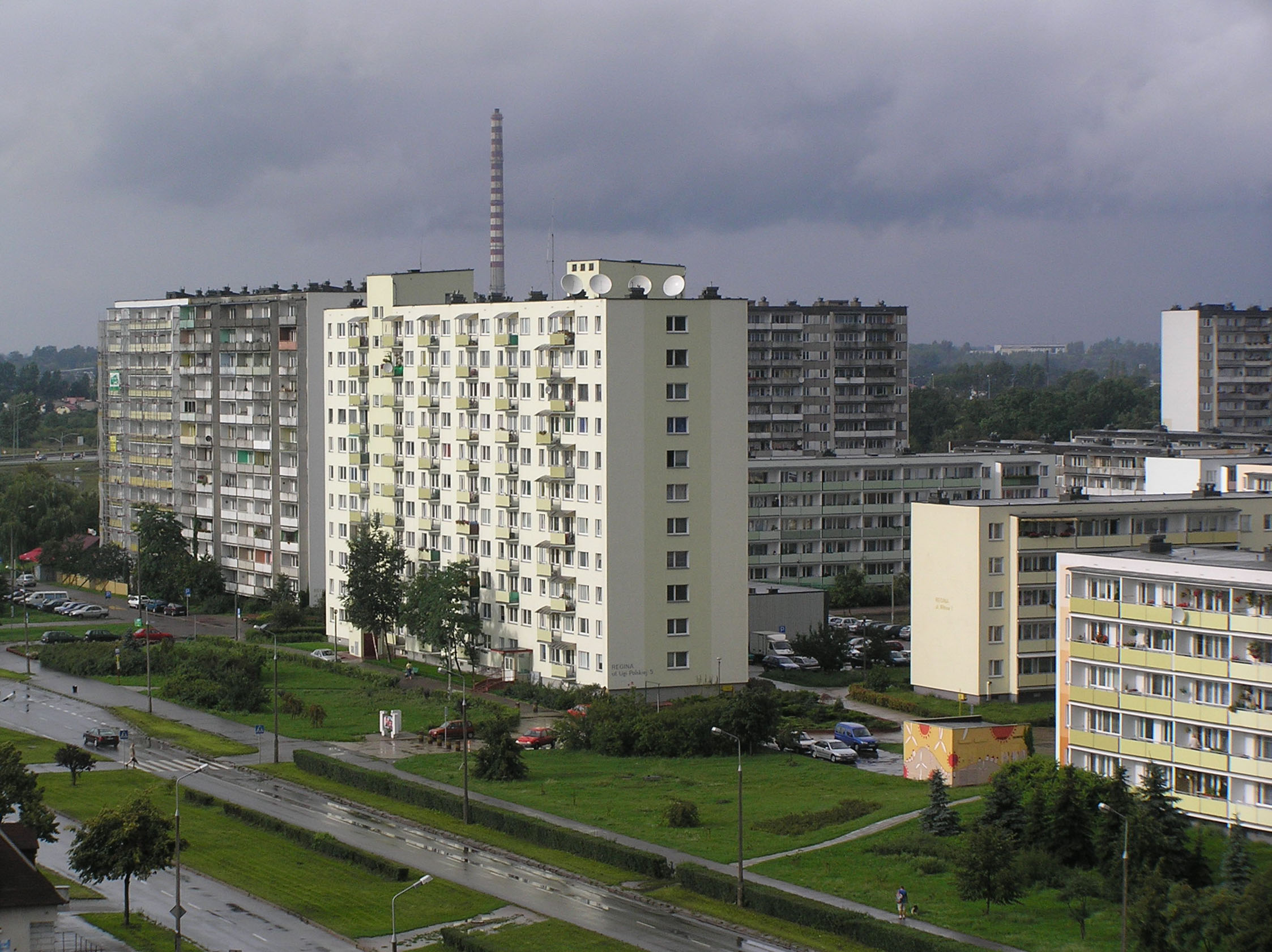 Toruń, Skarpa district, view from one of high-rise buildings